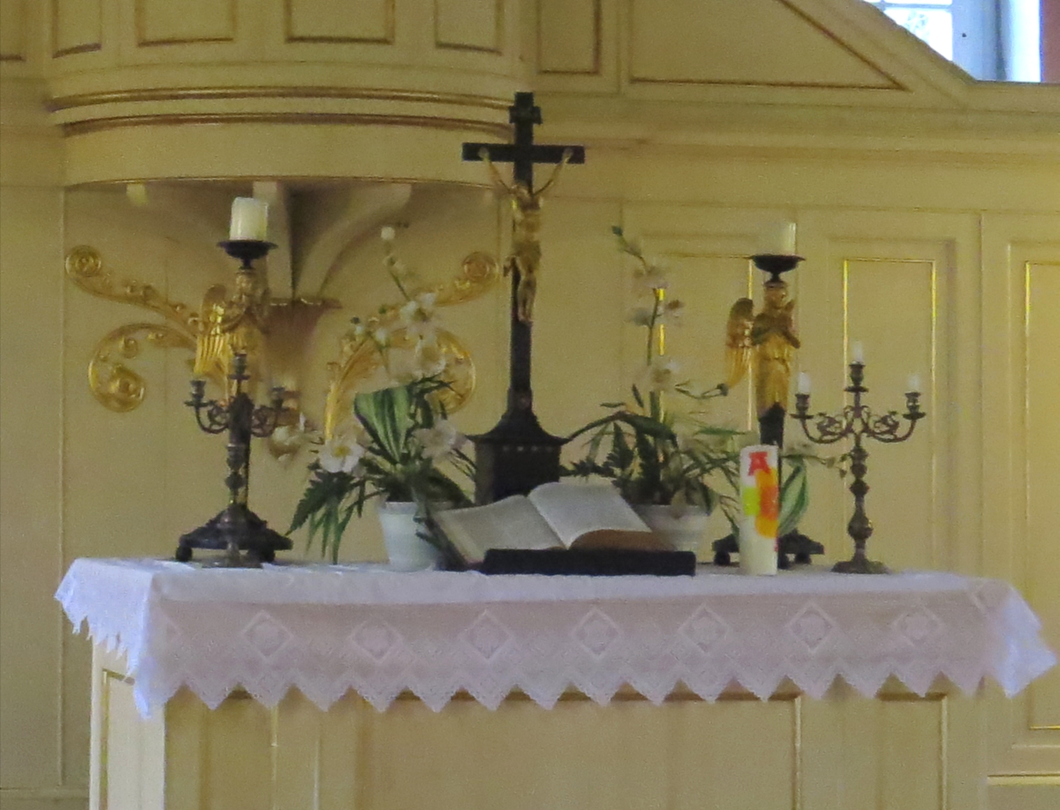 Wuthenow Kirche